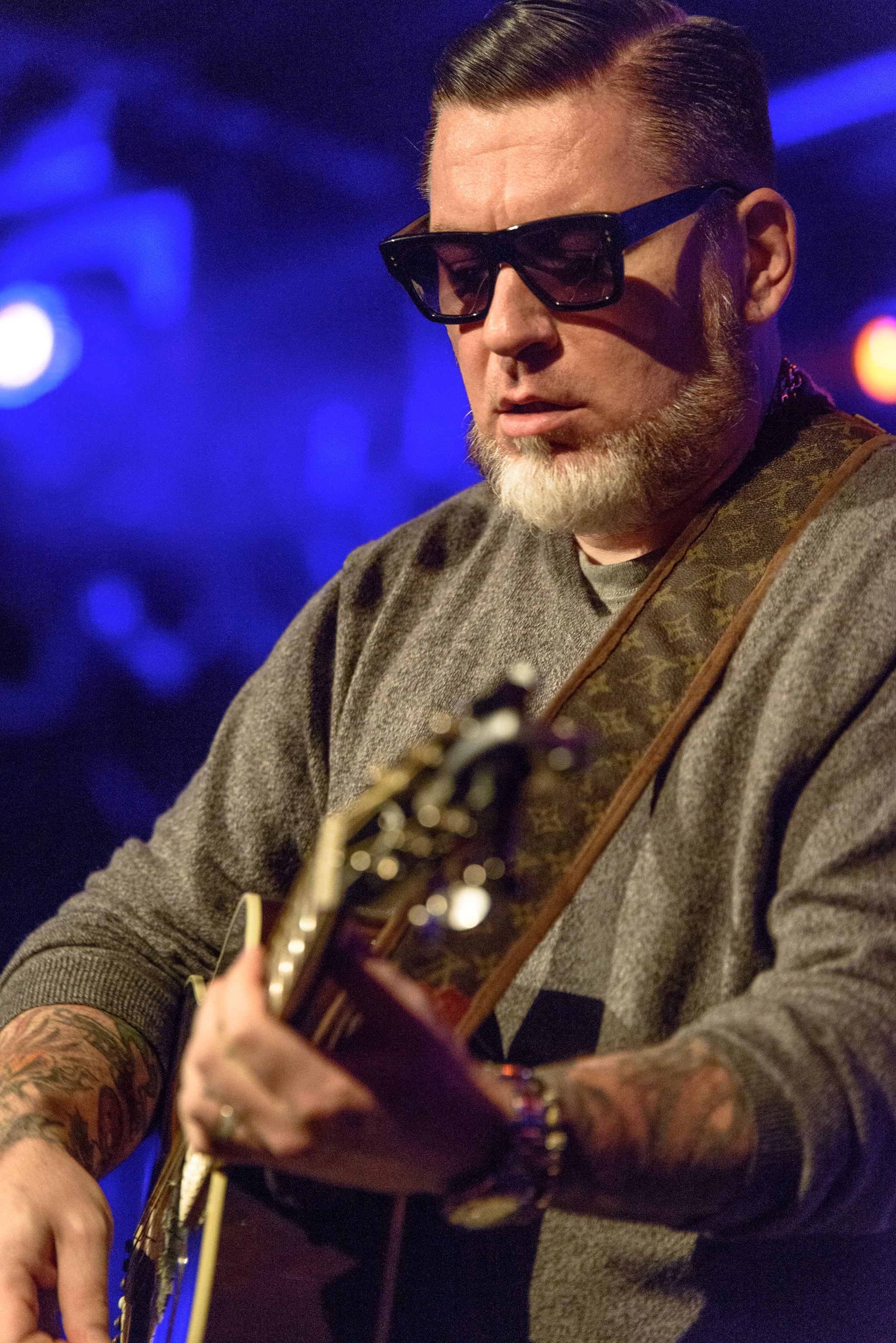 Everlast Live @ Free & Easy Festival 2015